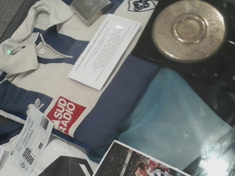 Maillot de Francis Rui lors de la finale Castres/Grenoble saison 1992-1993